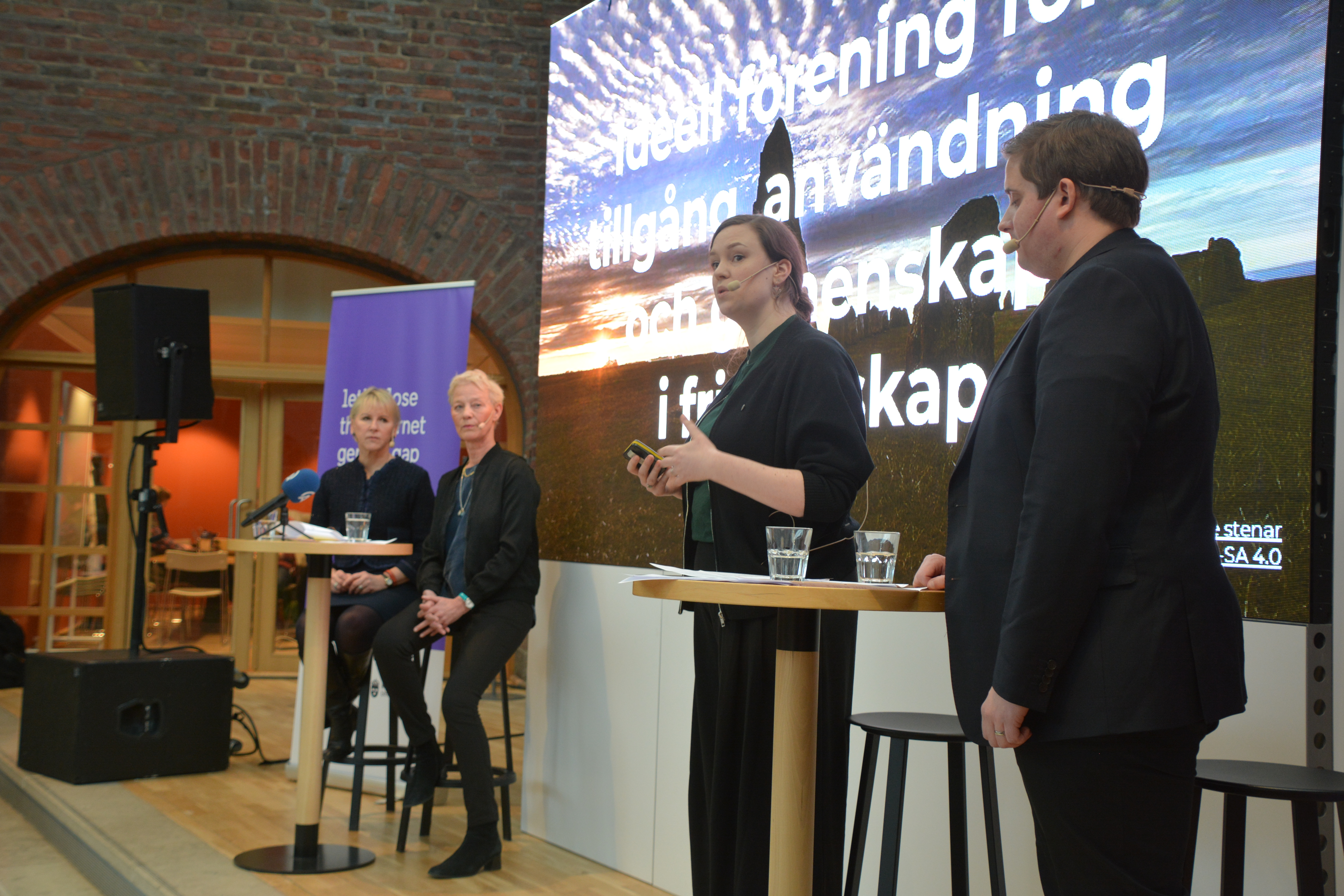 WikiGap 2018 i Stockholm. Margot Wallström, Anna Wahl, Sara Mörtsell och John Andersson